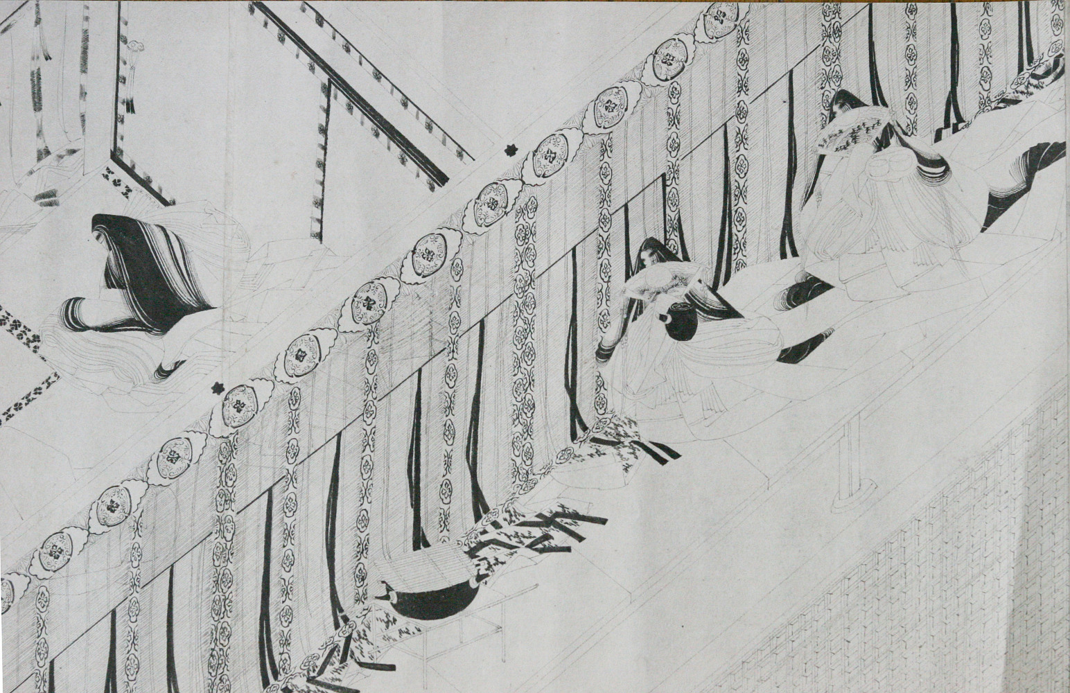 A part of one section of the Illustrated handscroll of The Pillow Book, ink on paper, 13th century, Japan Published ACE1921